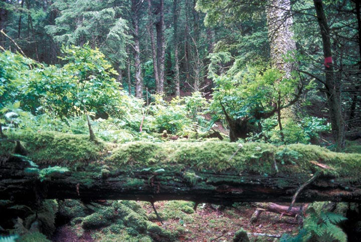 Forrester Island Wilderness in the U.S. state of Alaska ; national wildlife refuge since 1912 and "wilderness area" since 1970